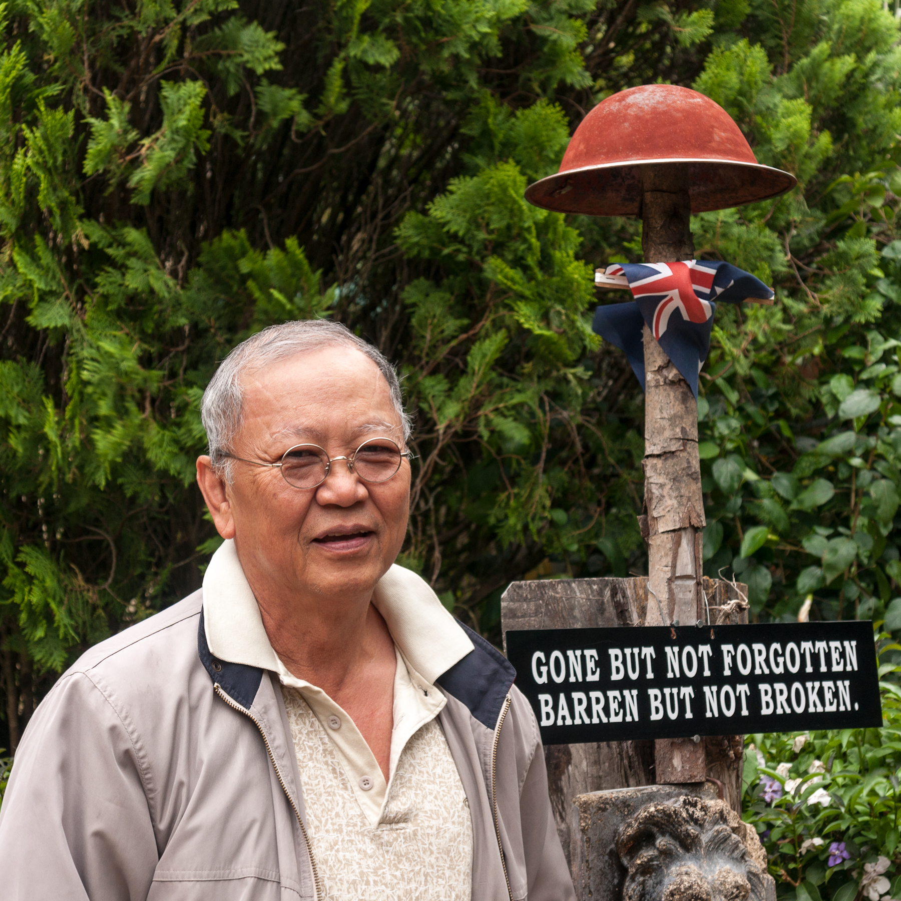 Kundasang, Sabah: The Kundasang War Memorial and Gardens; Sevee Charuruks AM, MBE